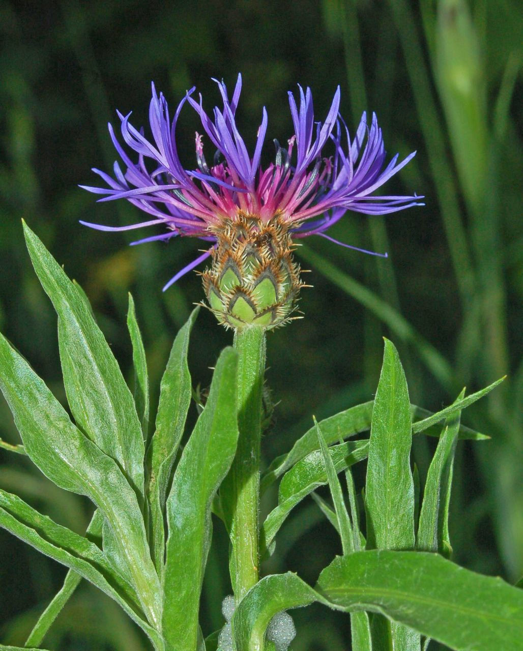 Centaurea triumfettii - Val Noci - Genova - Italy